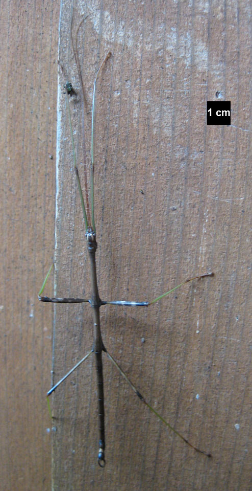 Stick insect Carausius morosus photographed at Gifford Pinchot State Park, Pennsylvania, September 2, 2012. Scale box is approximate.